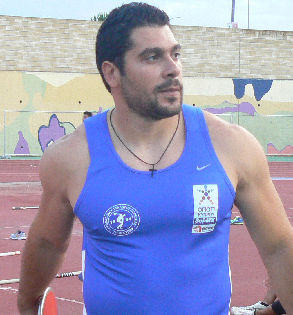 Cypriot discus thrower Apostolos Parellis.